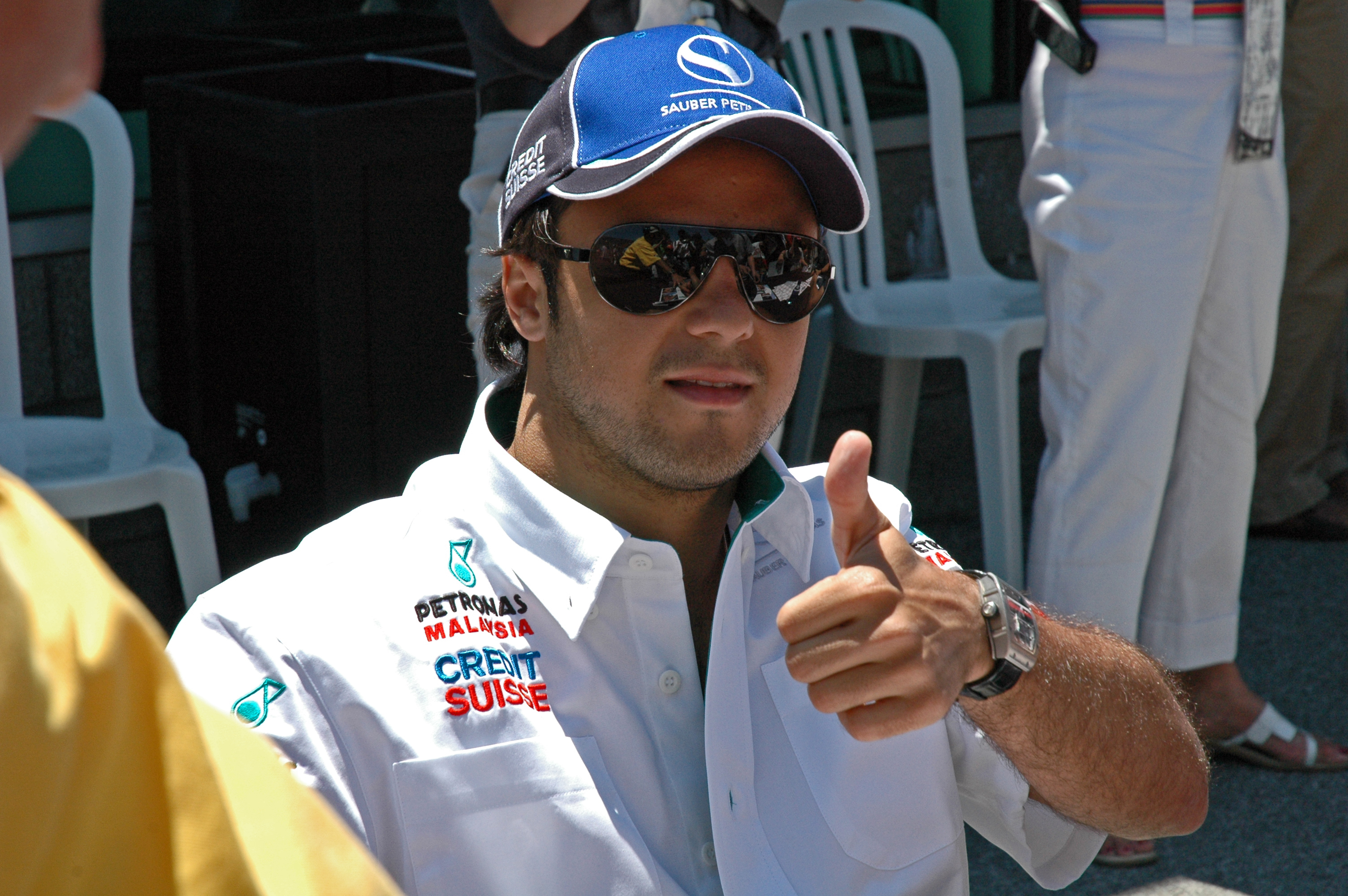 Felipe Massa giving thumbs-up at an autograph session at the 2005 United States Grand Prix